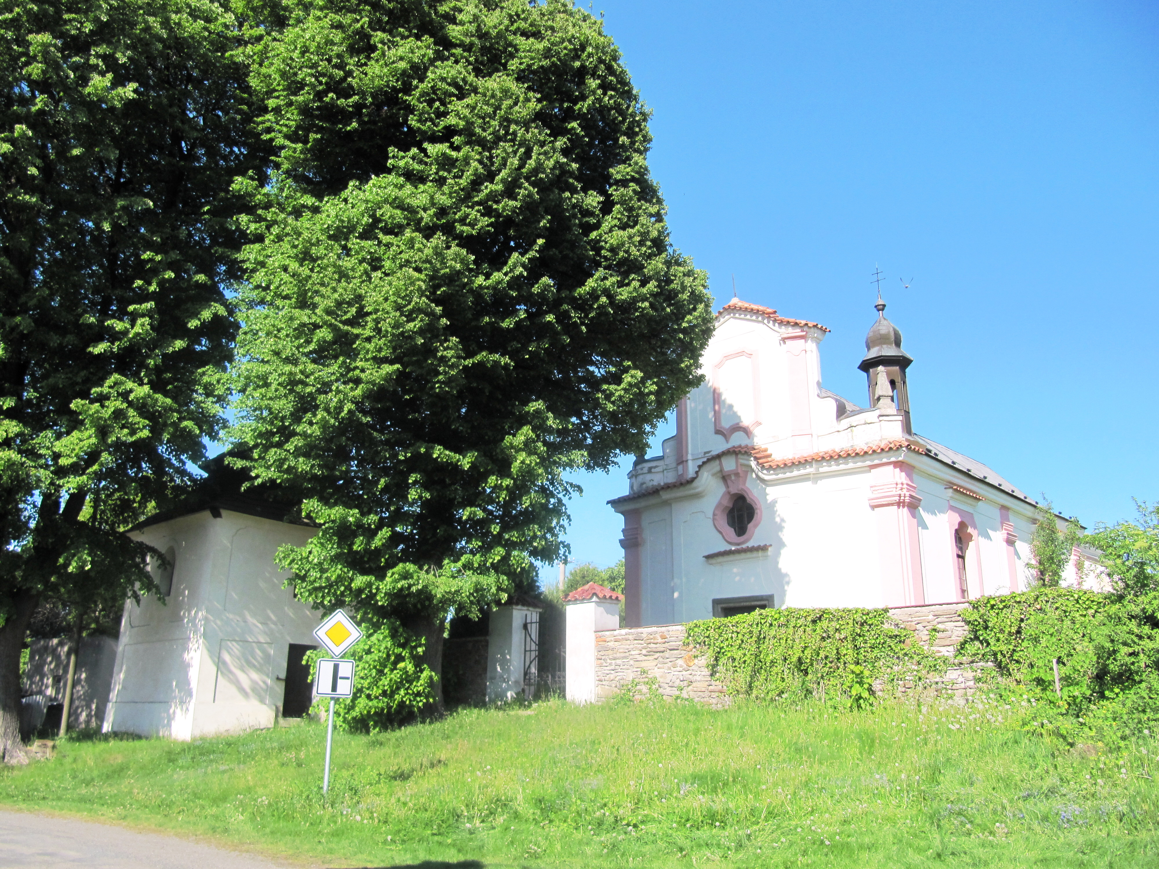 Rašovice in Kutná Hora District, Czech Republic. The Baroque Church of the Assumption of the Virgin Mary with a belfry.